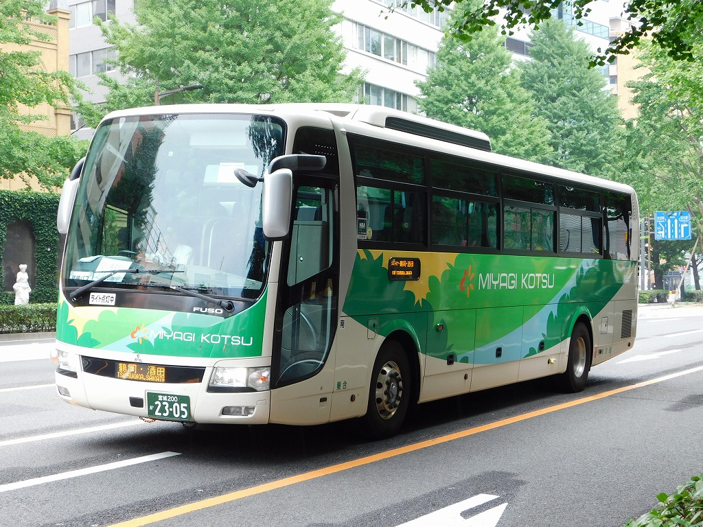 Miyagi Kotsu Mitsubishi Fuso Aero Ace (QRG-MS96VP)highwaybus "SS liner" (Sendai-Tsuruoka, Sakata)